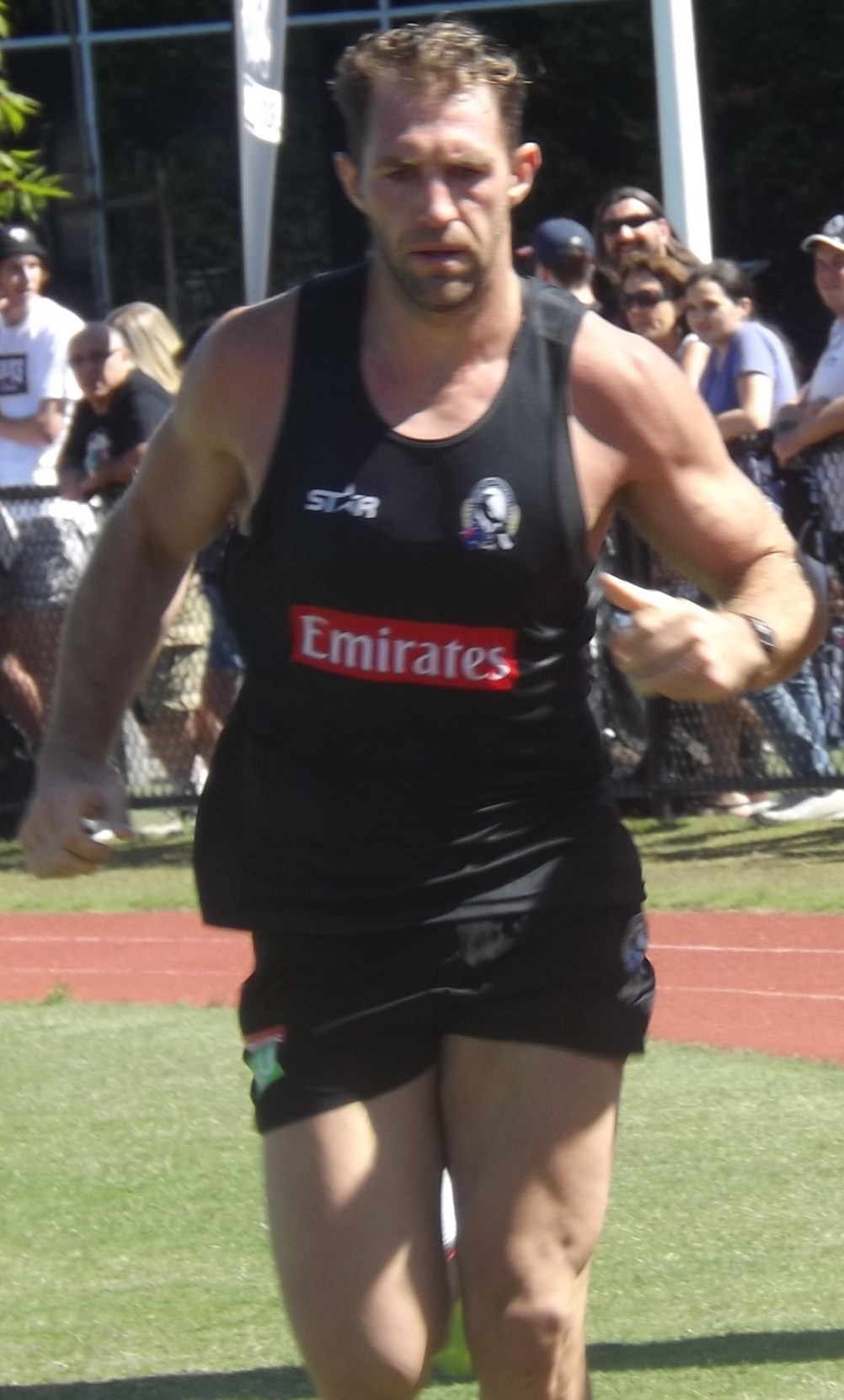 Travis Cloke running laps during a Collingwood open training session at Olympic Park, Melbourne.